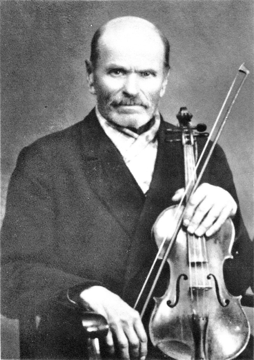 Photograph of the Finnish folk musician (violinist) Matti Haudanmaa (1858–1936).